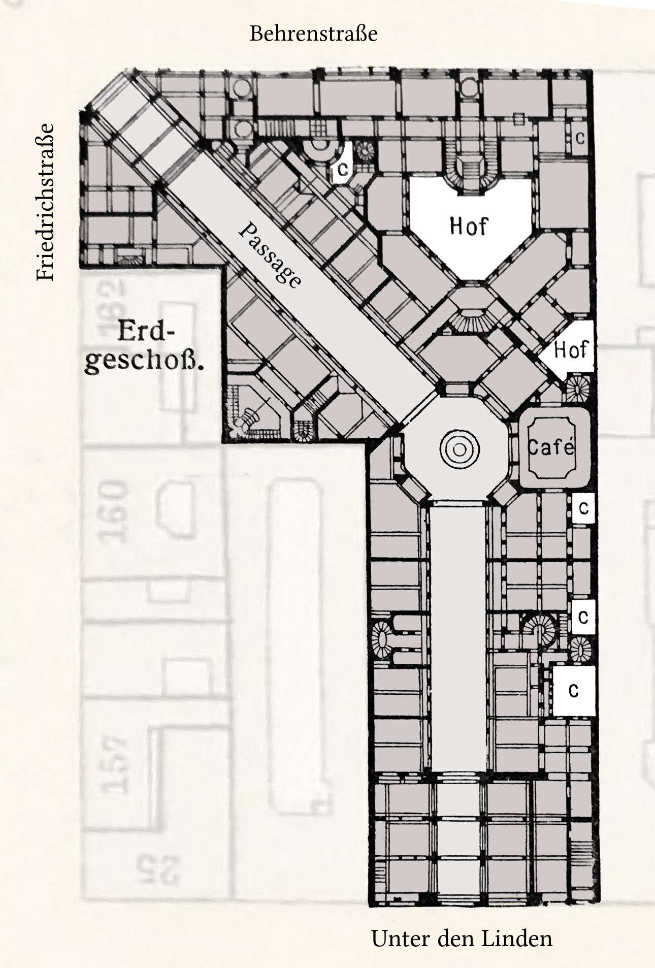 Floor Plan of the »Kaisergalerie« in Berlin around 1900